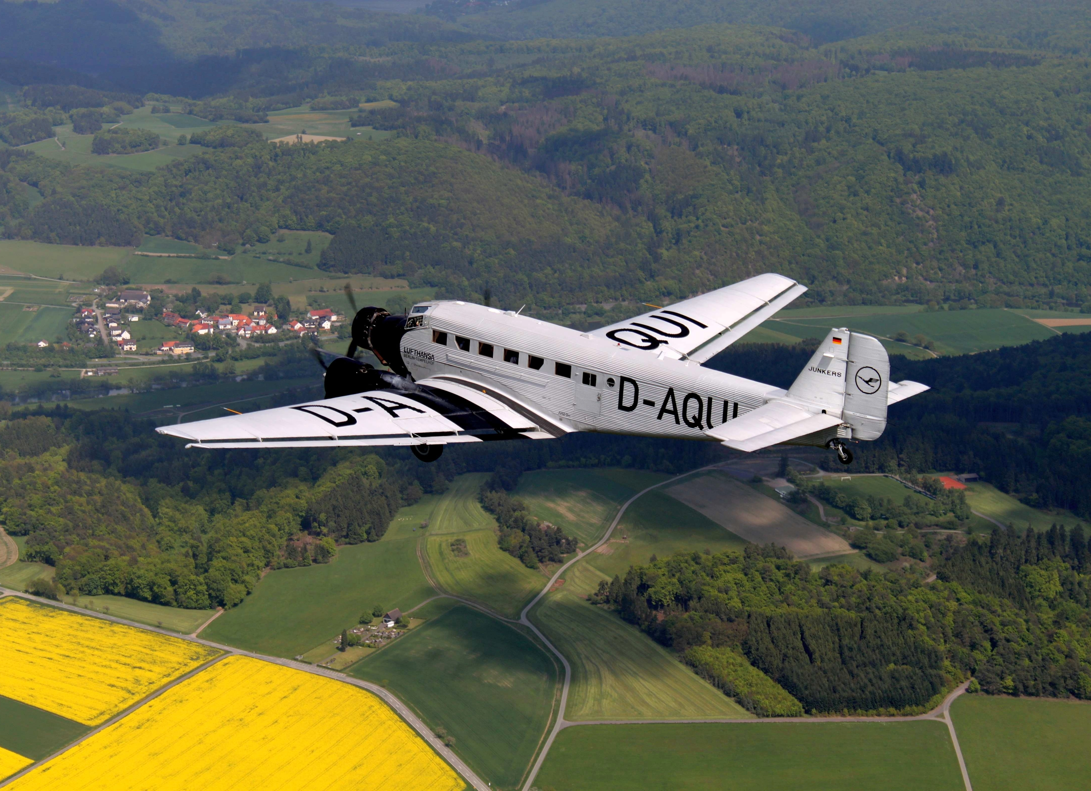 Junkers Ju 52/3m in flight